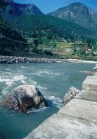 Holy Ganga river